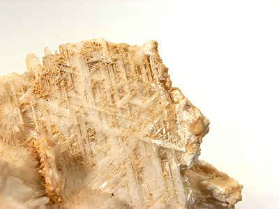 Hambergite Locality: Turakuloma Range, Pamir Mountains, Tajikistan? Size: small cabinet, 5.7 x 4.6 x 2.3 cm Hambergite (twinned) This satiny, spectacular cluster of reticulated , twinned hambergite is quite good for the locality, illustrating interesting reticulated growth patterns more common in cerussite than in hambergite. This rare beryllium borate is uncommon from teh locality, as well - not many good specimens have been found, to my knowledge. It is on tabular, off white crystals of another mineral that may have altered also to hambergite (?).